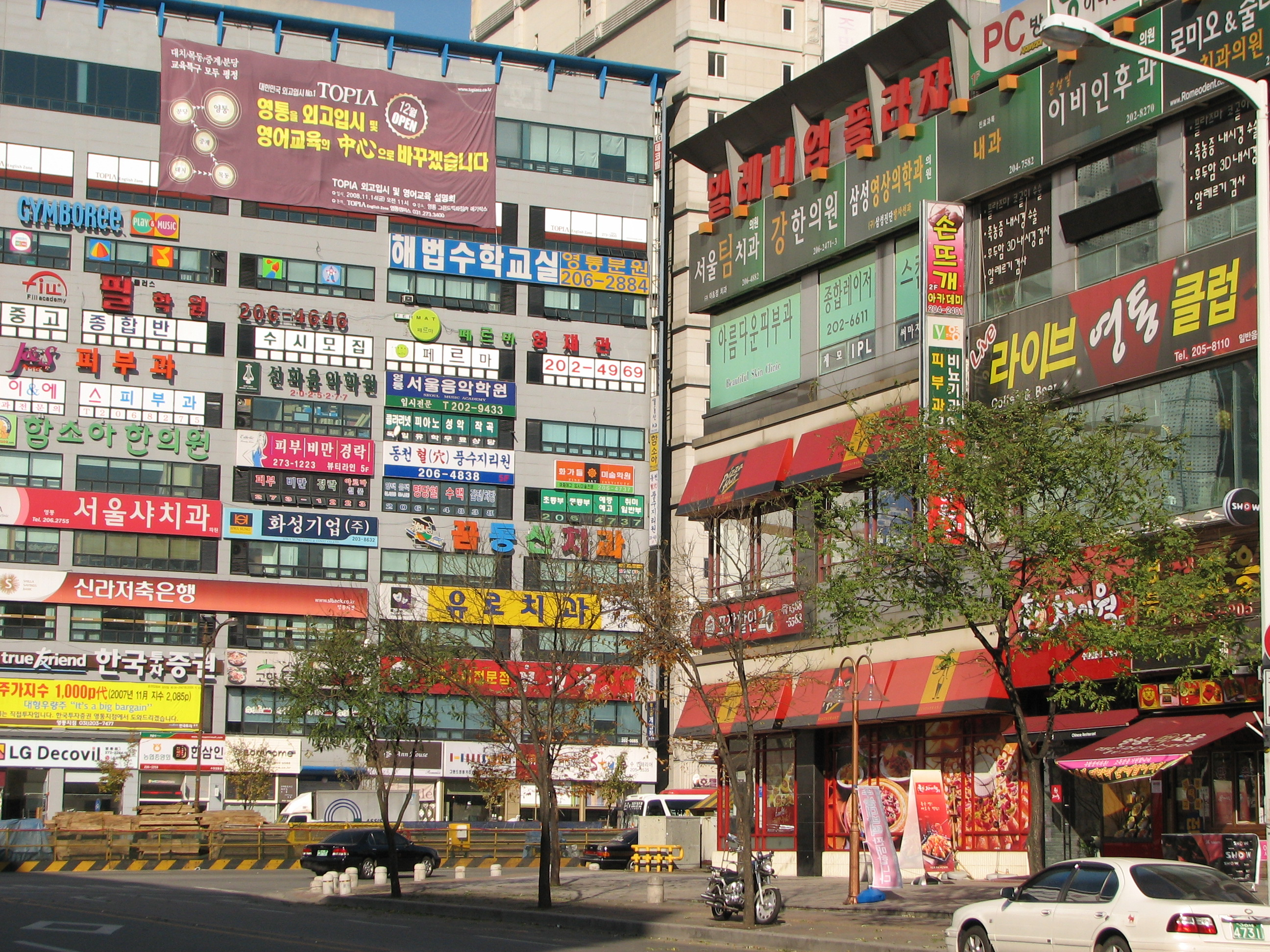 Yeongtong-gu, Suwon, South Korea